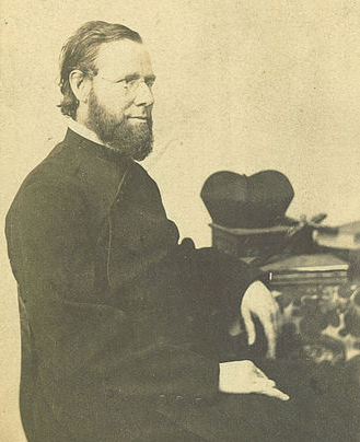 Isaac Hecker